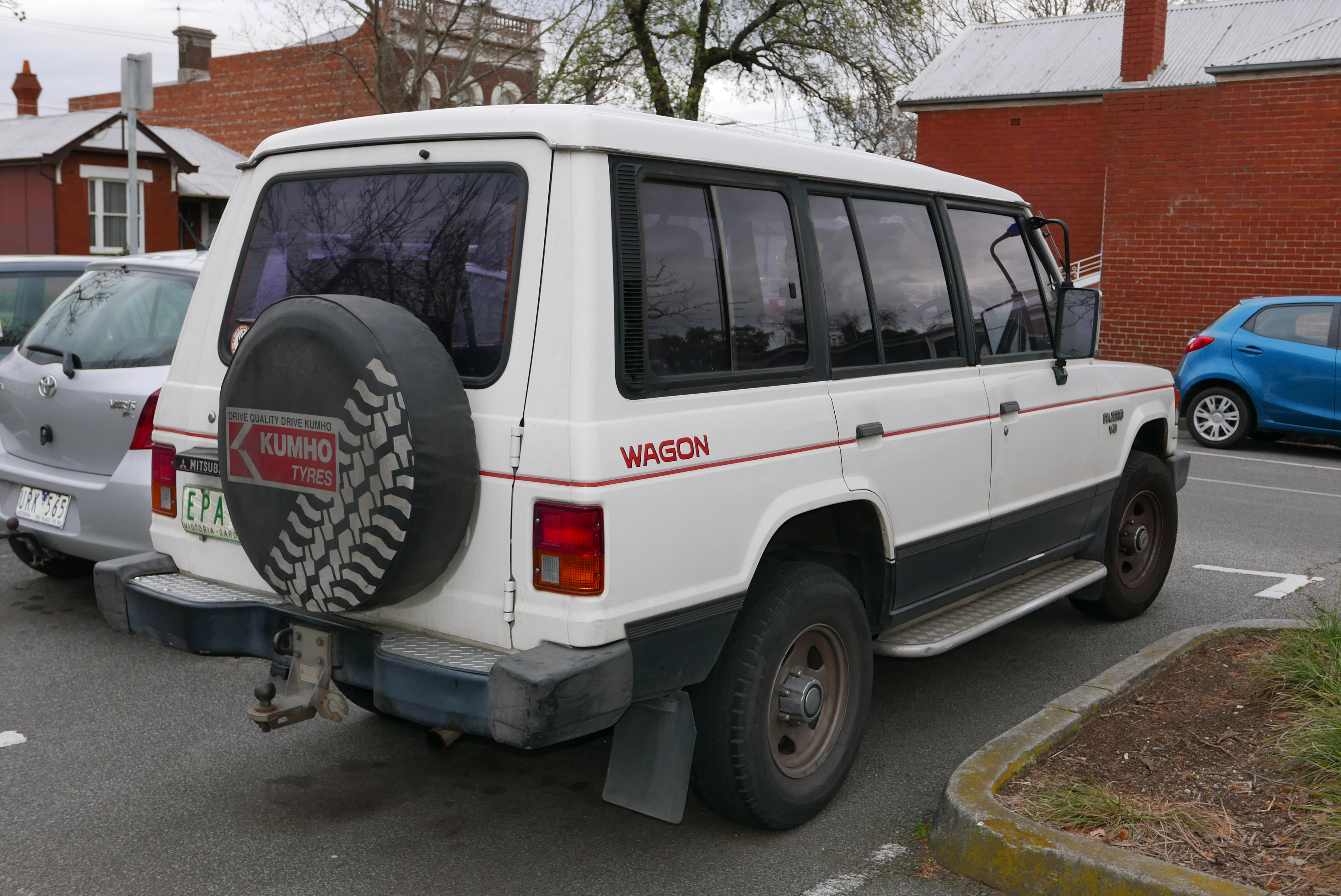 1991 Mitsubishi Pajero (NG) Superwagon V6 wagon. Photographed in Fitzroy North, Victoria, Australia. Vehicle registration enquiry results Jurisdiction Victoria Registration EPA863 Chassis code JMFNG6Z45LJ006879 Engine code G67NK4135 Compliance date 1991-07 Year of manufacture 1991